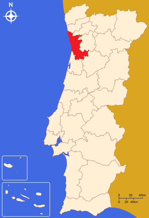 Metropolitan Area of Porto (statistical region)